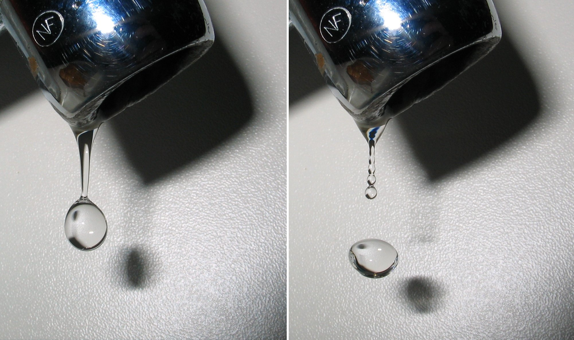 A Waterdrop detaching from a water tap on 21 January 2006